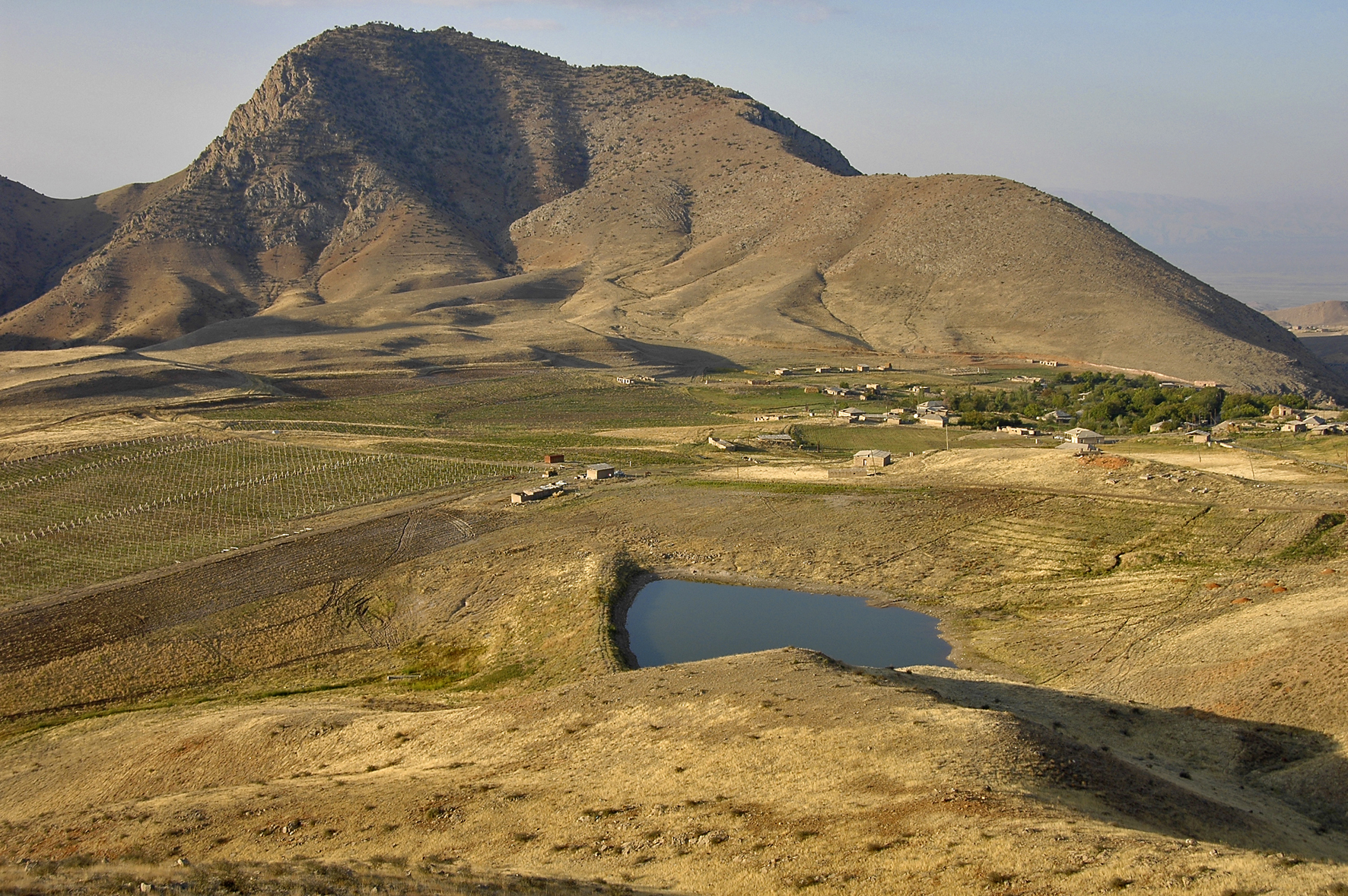 Rural community of Areni, Armenia.